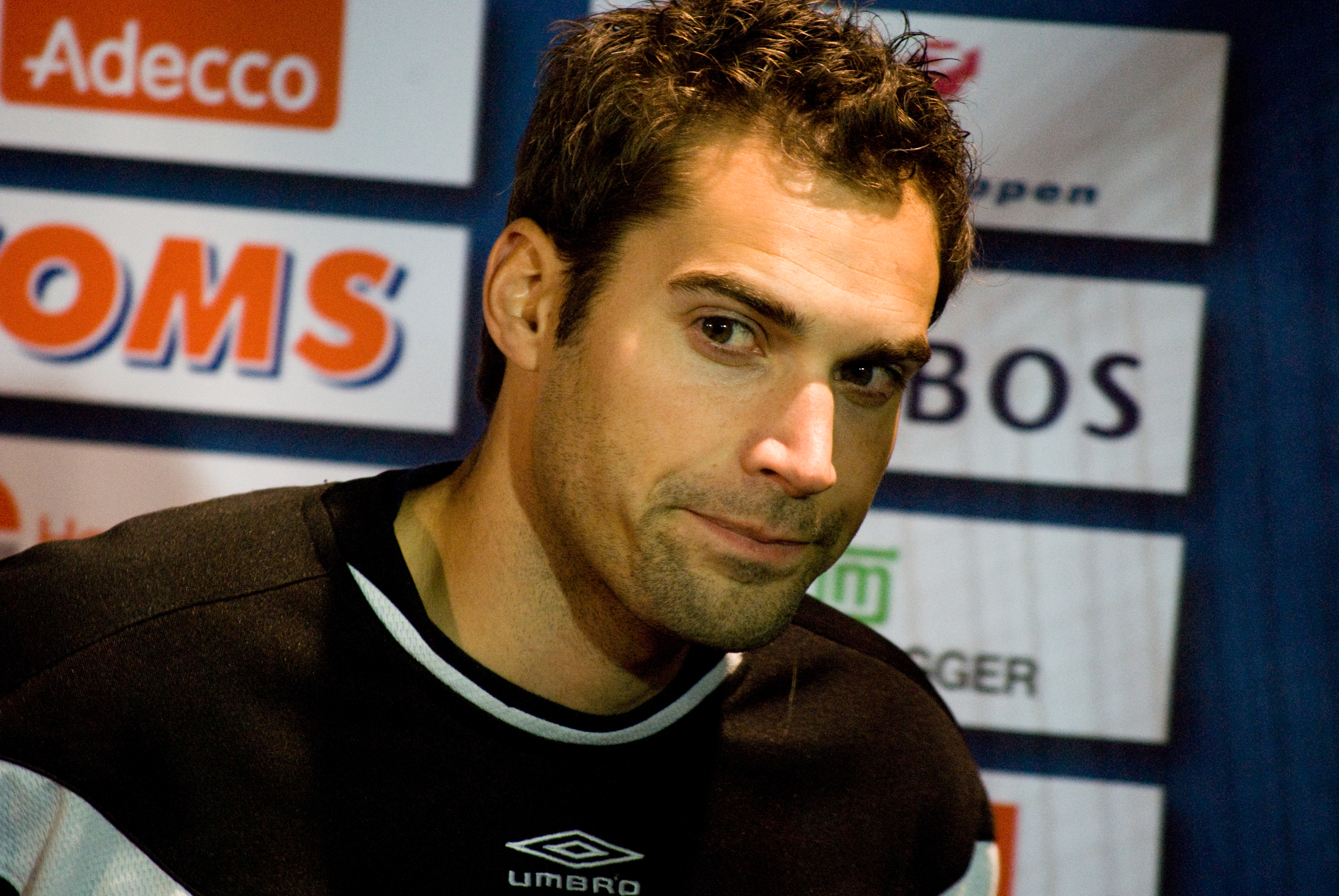 Kongsvinger coach Øyvind Eide after 1-1 against Skeid at Bislett stadion October 13 2009.